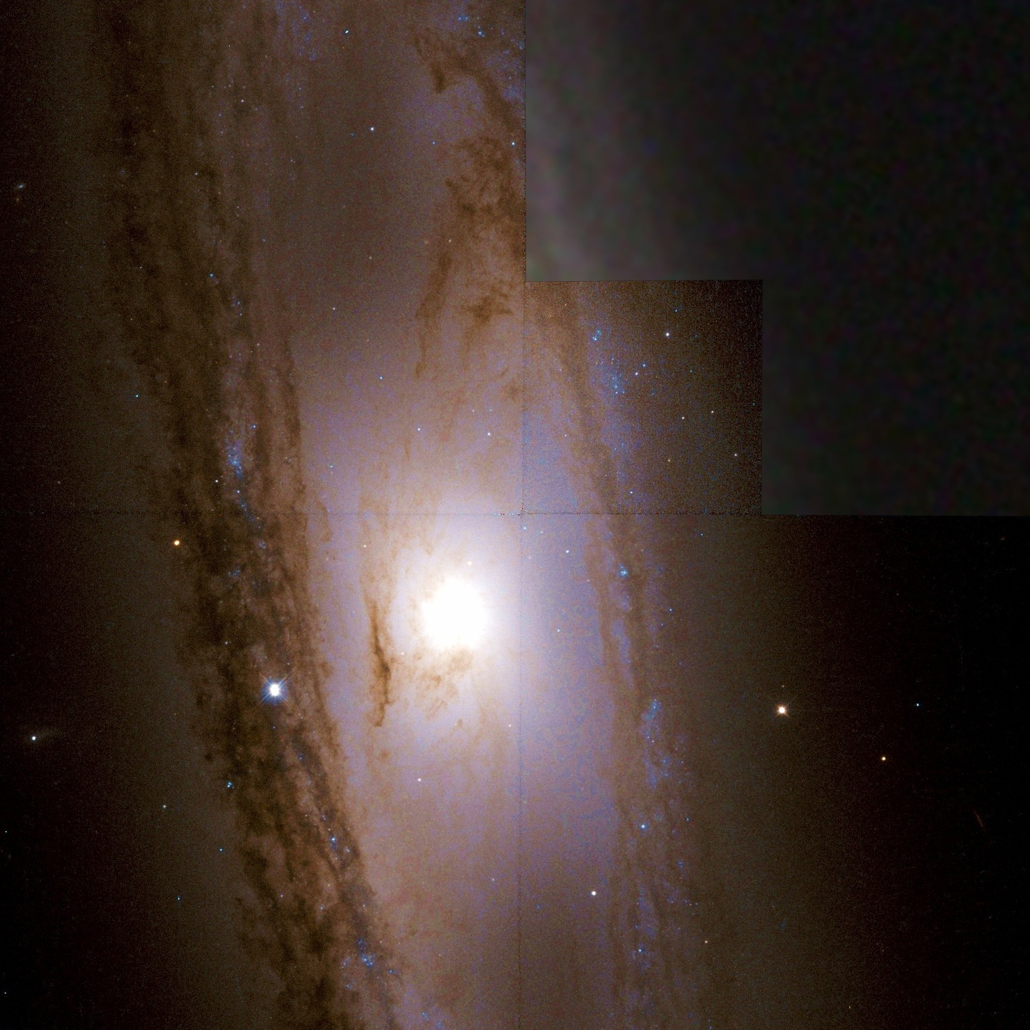 Messier 65 spiral galaxy by Hubble Space Telescope; 2.45′ view